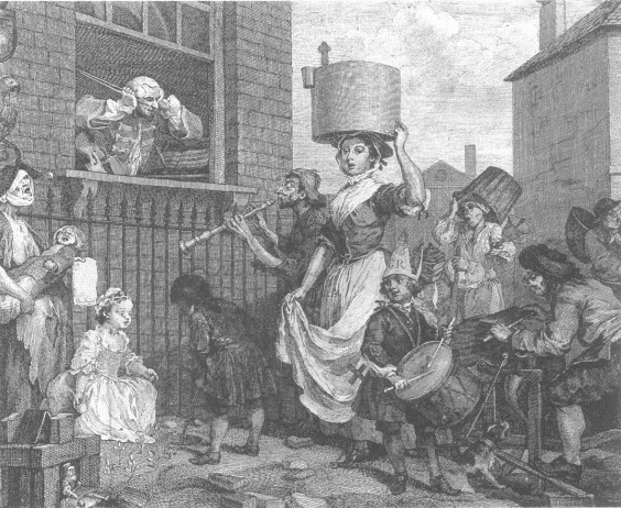 Trial proof for The Enraged Musician